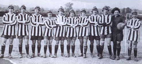 Dick Kerr's Ladies in Pawtucket, Rhode Island